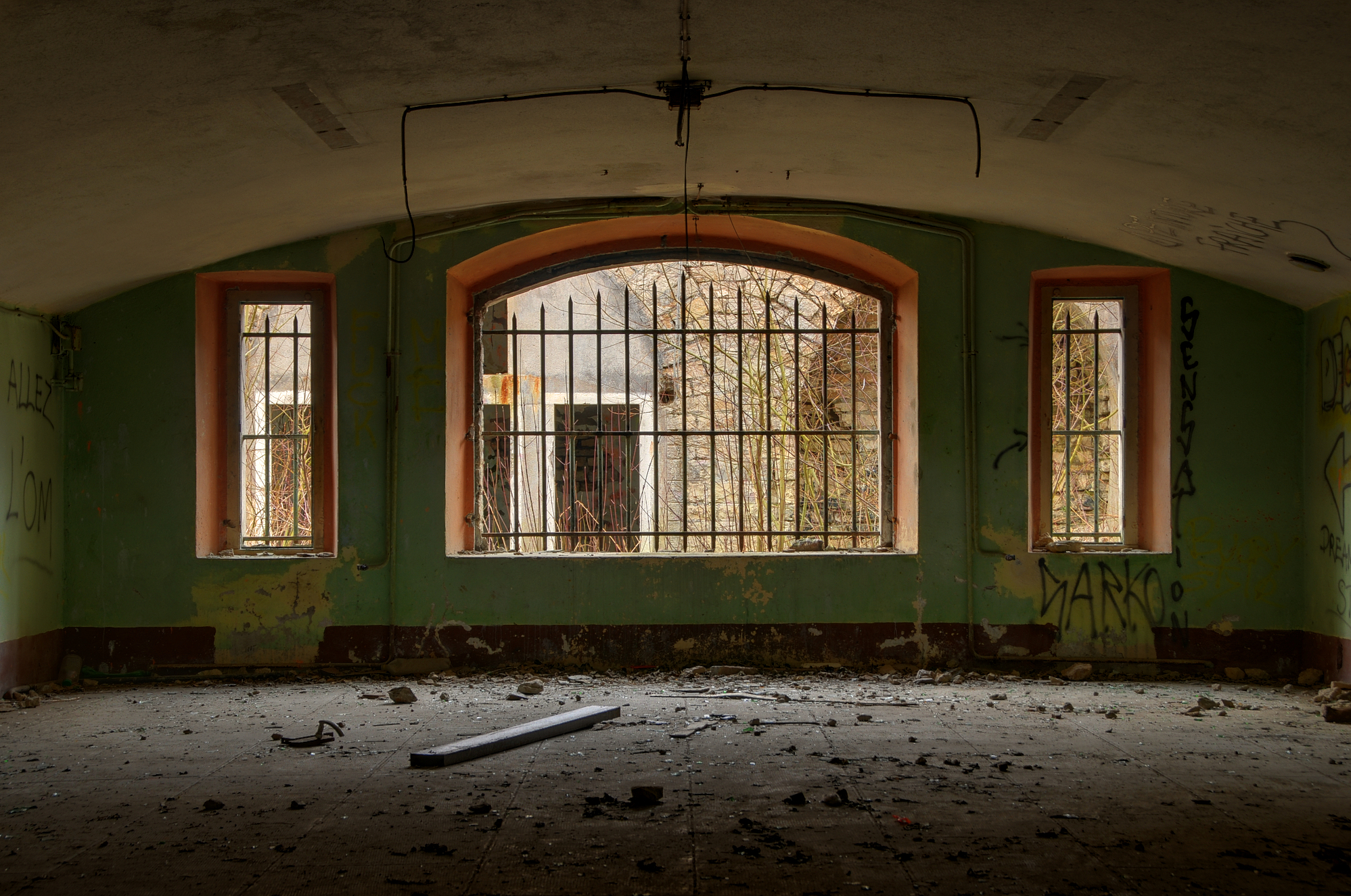 Inside the Salbert hill fortifications (HDR).